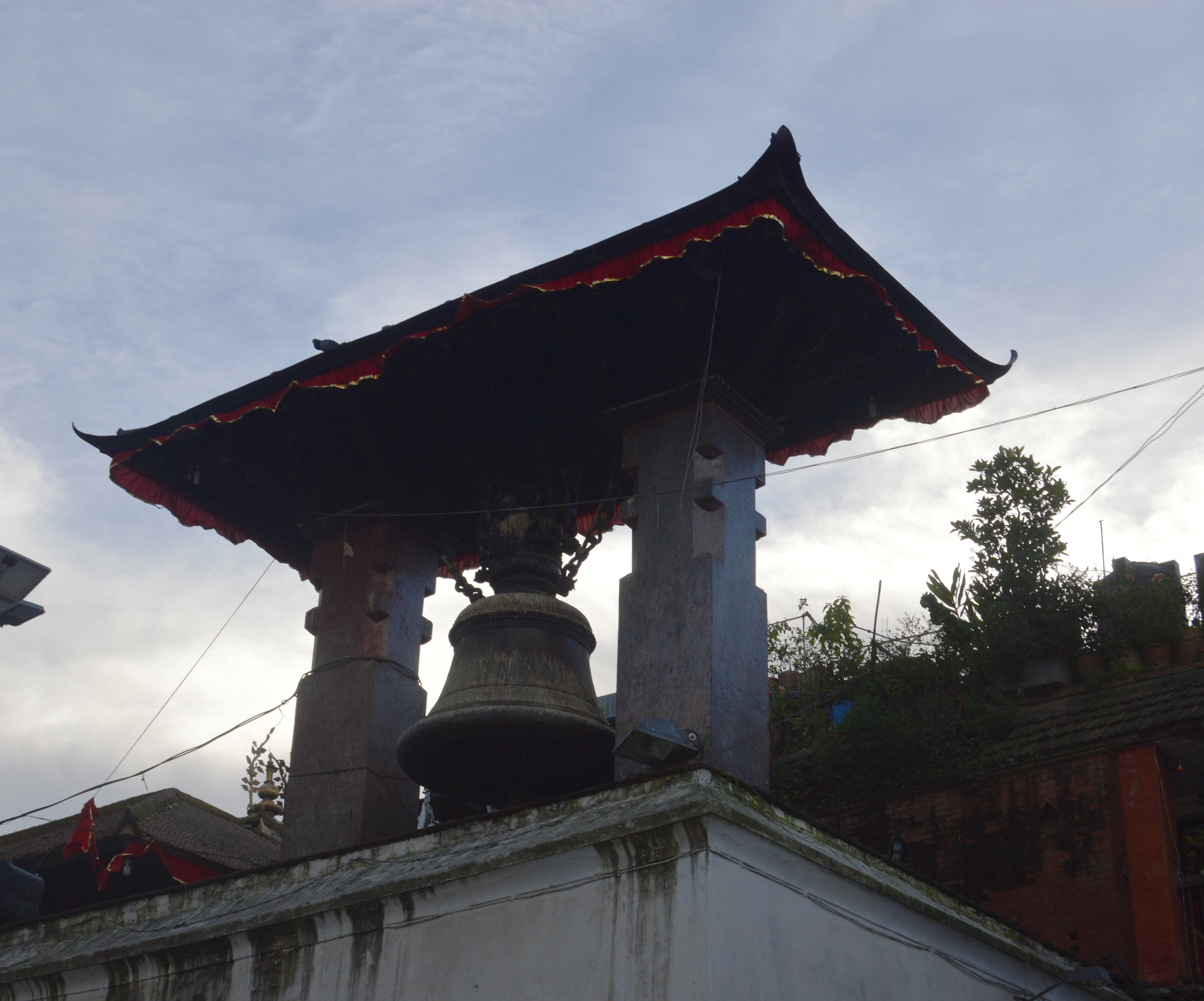 This big bell is supported by two stone pillars and has a tilted roof. King Rana Bahadur Shah and his queen Raj Rajeshwori built it in 1797. This bell is rung only when worship is being offered in Degutaleju.